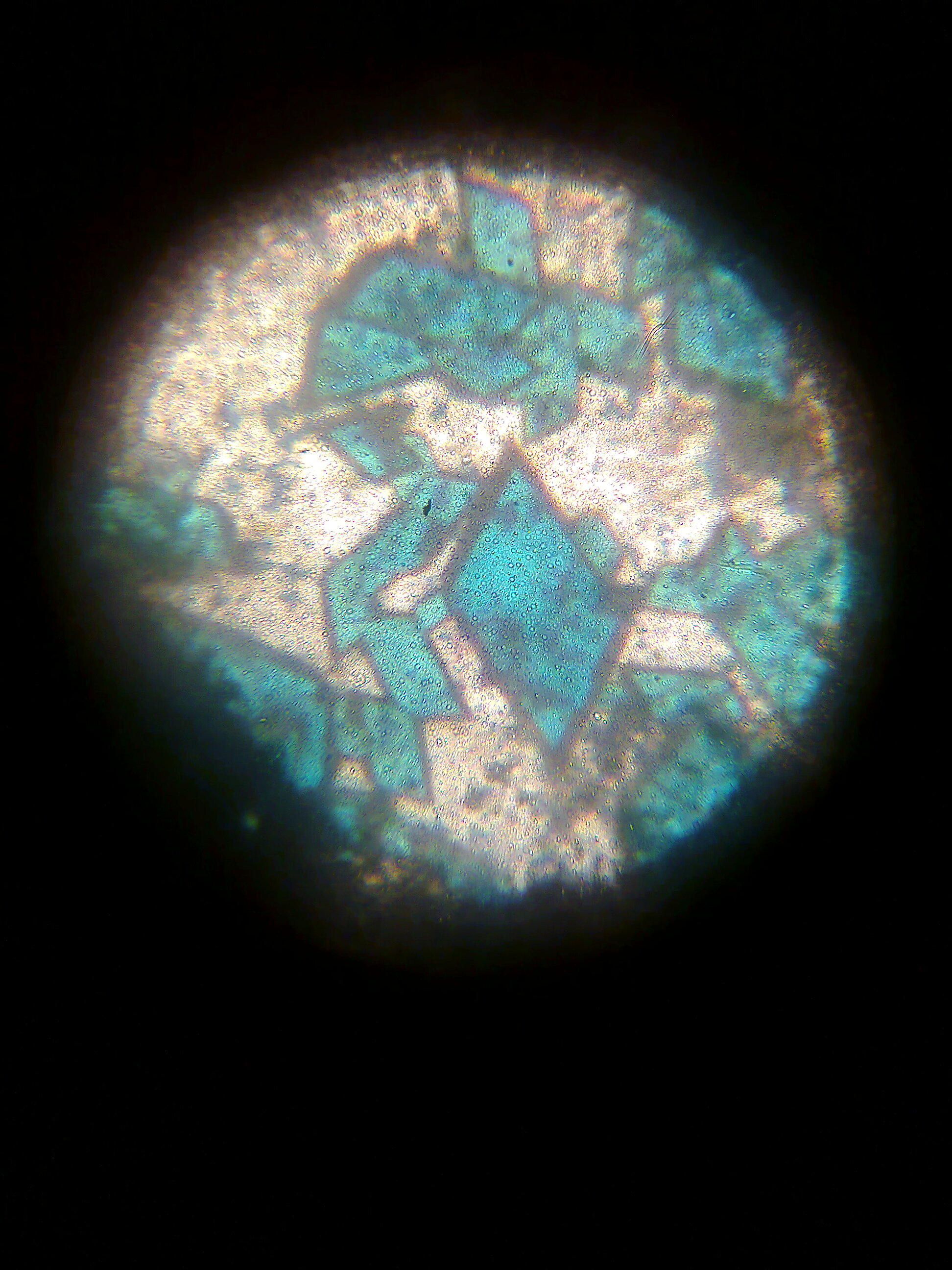 crystals of copper(II)acetate under my microscope